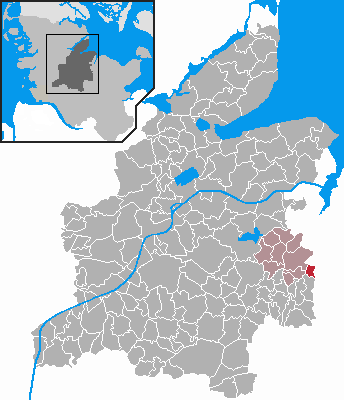 Locator maps of municipalities in Schleswig-Holstein - District Rendsburg-Eckernförde